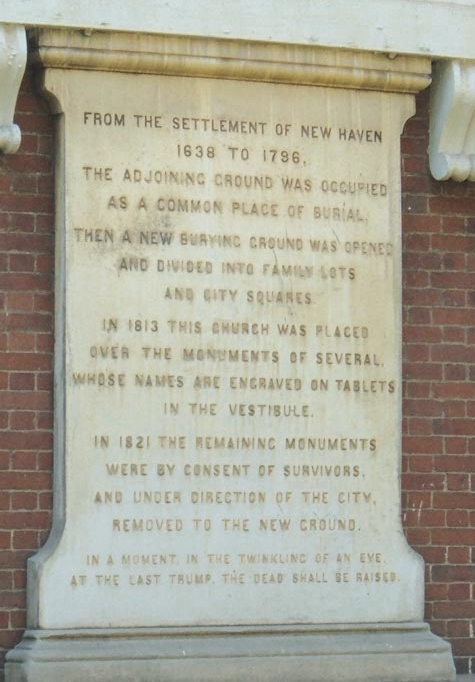 The Center Church plague in Memory of the people that founded the city of New Haven, who where also buried.